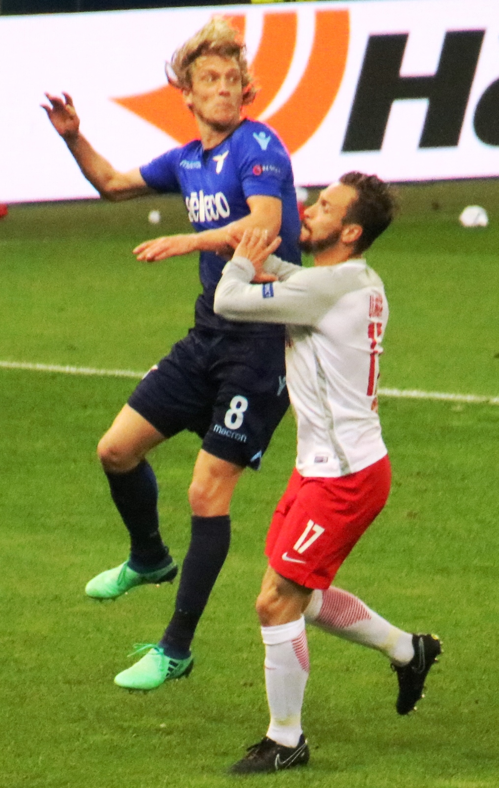 UEFA euro League Quarterfinal 2nd leg